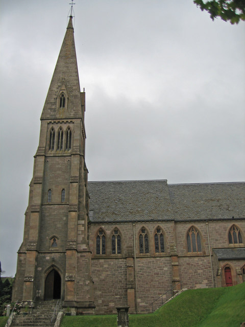 Cathedral Of The Isles, Great Cumbrae